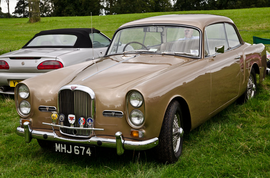 Alvis TE21 1963 Cholmondeley Classic Car & Bike Show 02/09/2012(DVLA) First registered 1 December 1963, 2993cc